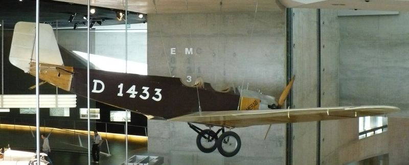 Klemm-L20 from Daimler-Motoren-Gesellschaft in the Mercedes-Benz Museum Stuttgart. It is a partial reconstruction